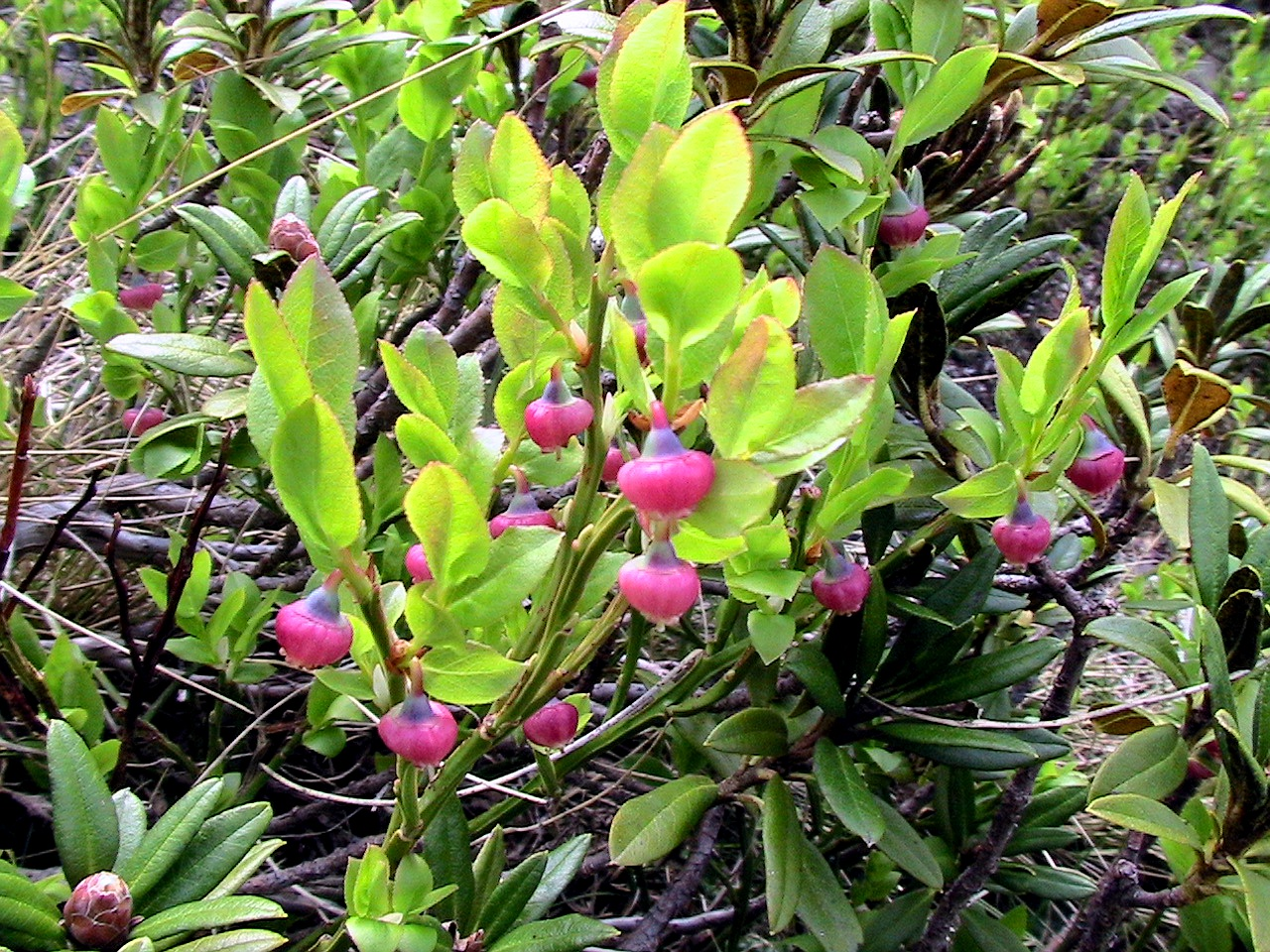 Vaccinium myrtillus. In Cabdella (Pallars Jussà - Catalunya. To 2.020 m altitude